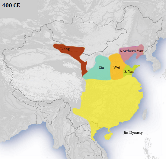 Map of China c.400 CE/AD source: Cambridge illustrated history - China. Page 87.